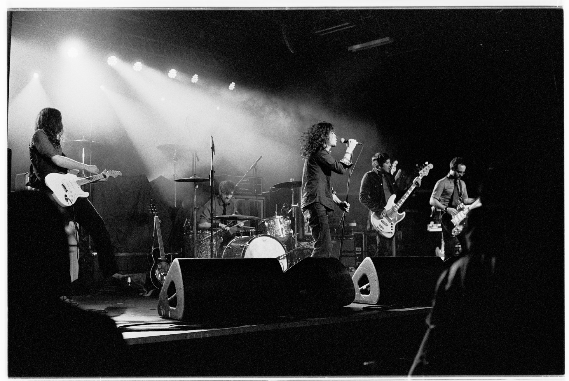 We Could Be Astronauts live at the O2 Arena Sheffield